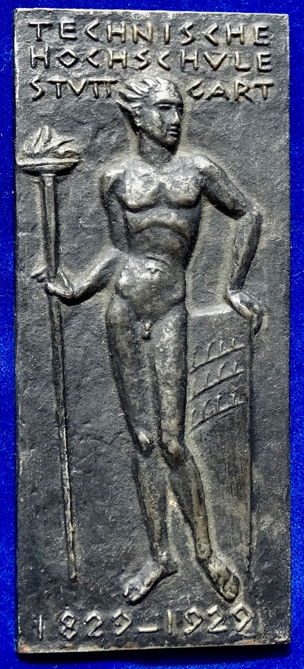 Stuttgart 1929, Eisenguss-Plakette zur 100-Jahrfeier der Technischen Hochschule. Art Deco. Einseitige Medaille 60 x 138 mm Stehender nackter Student mit Fackel und württembergischem Wappen, oben 3 Z.: "TECHNISCHE HOCHSCHVLE STVTTGART", unten im Feld 1 Z.: "1829 - 1929".